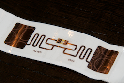 Photo taken by uploader of disposable RFID tag used to time runners at the 2009 Miami Marathon and Half-Marathon.